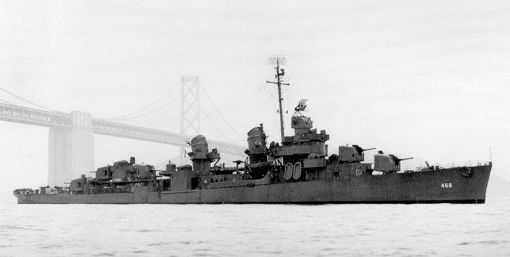 The U.S. Navy destroyer USS Taylor (DD-468) in San Francisco Bay, California (USA), on 26 January 1944.